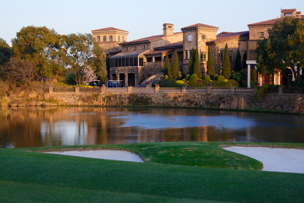 Sheshan Golf Club